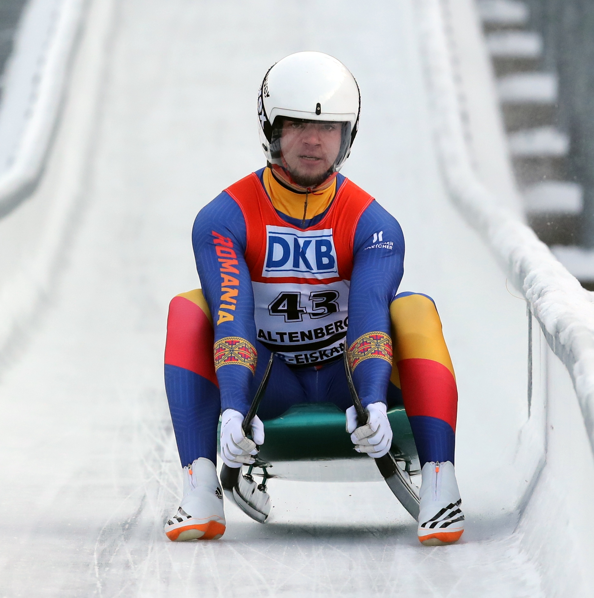 Theodor Andrei Aurelian Turea (Romania) at the men's Nationscup race in Altenberg